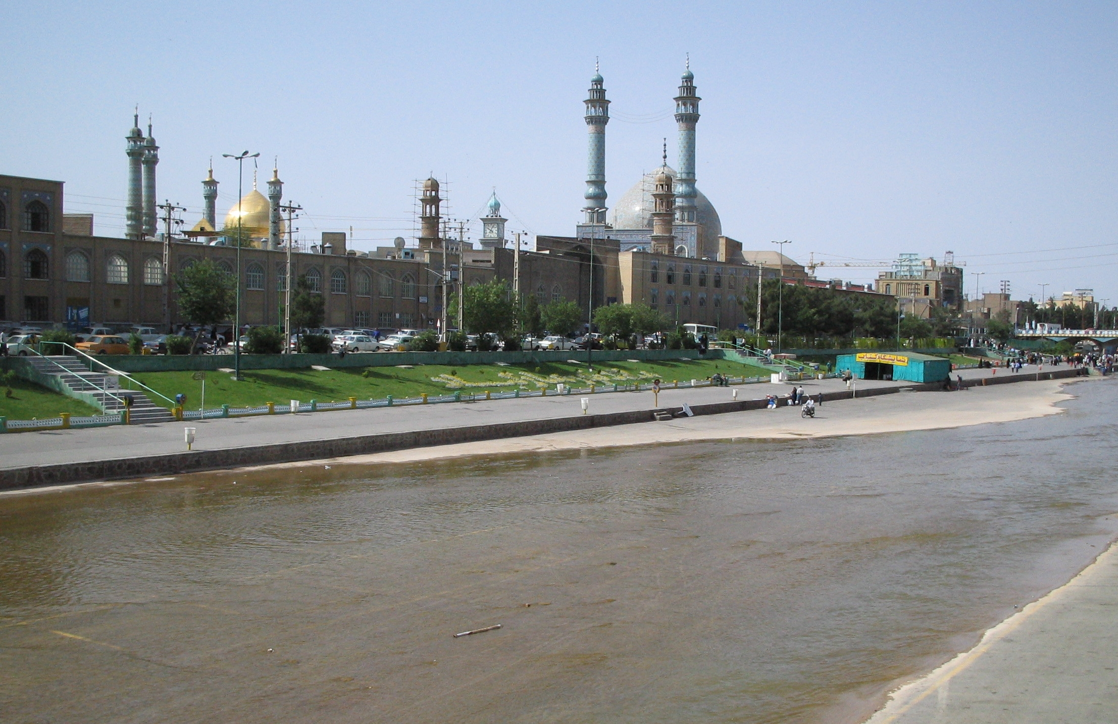 View upon Shrine of Hazrat Massoumeh Qom, Iran